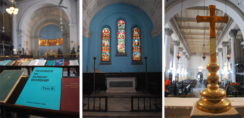 Interior of St. John's Church, Kolkata